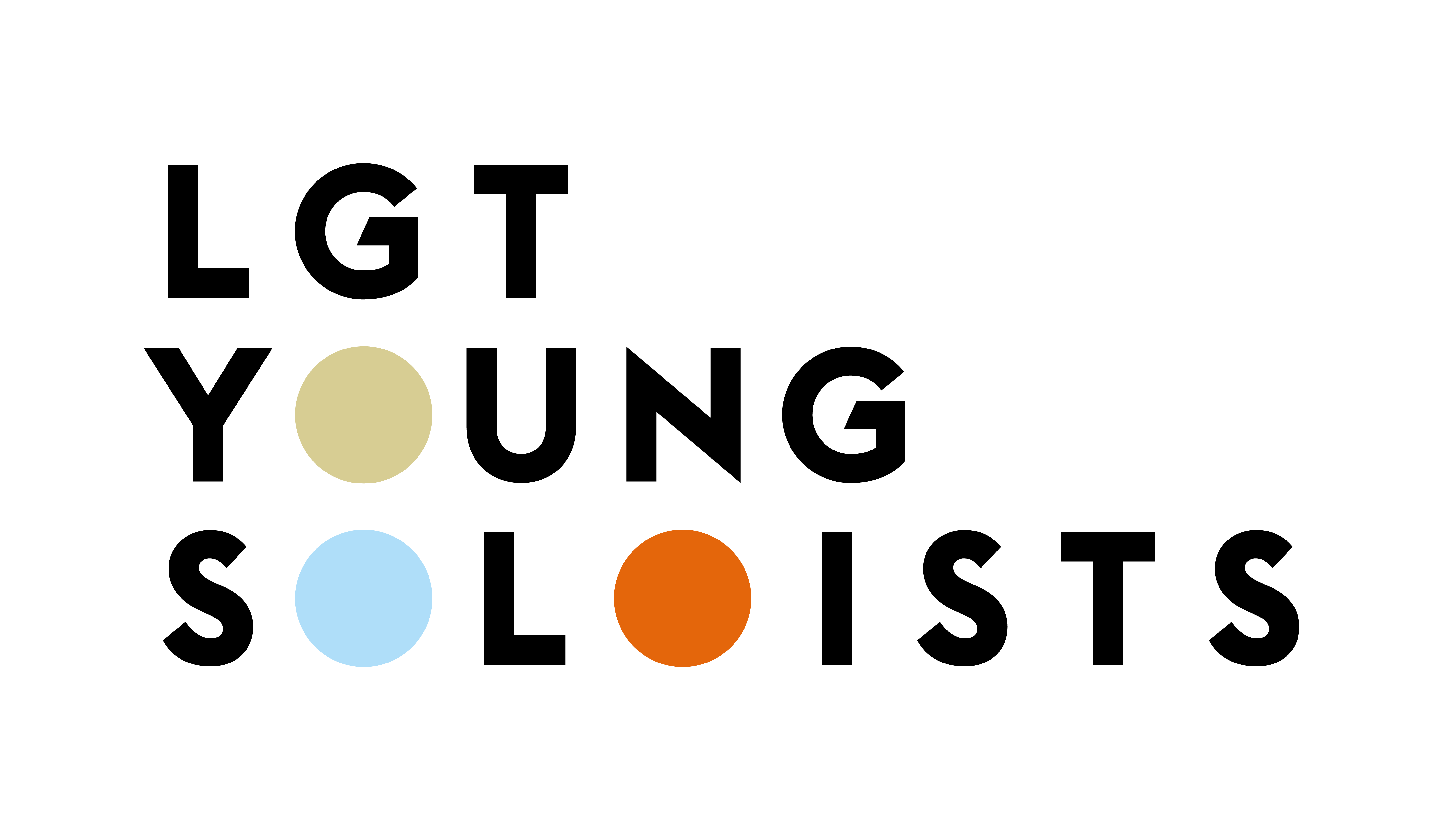 Logo of the LGT Young Soloists